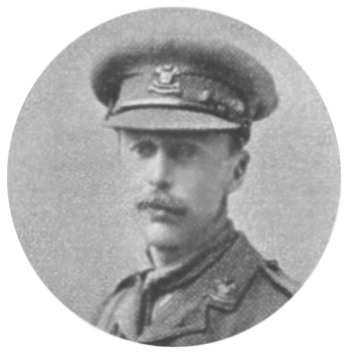 Philip Kirkland Glazebrook (1880-1918), MP, in a photograph published following his death in the First World War.